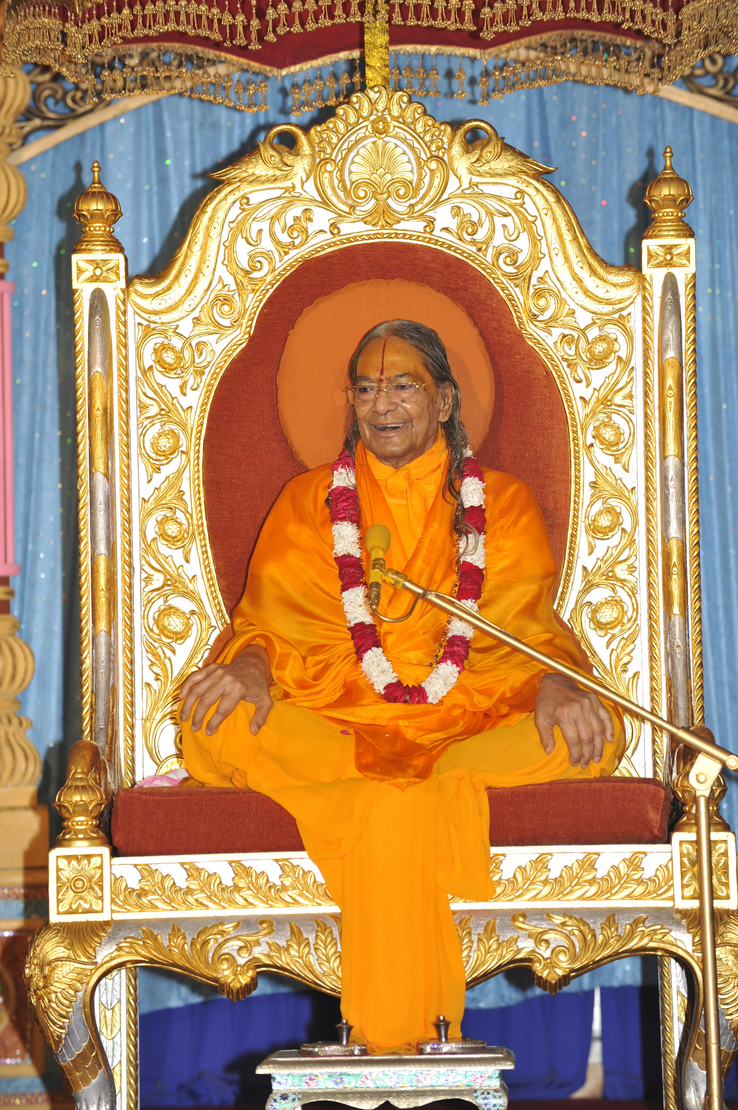 Kripalu Ji Maharaj Giving Lecture as Official Jagadguru